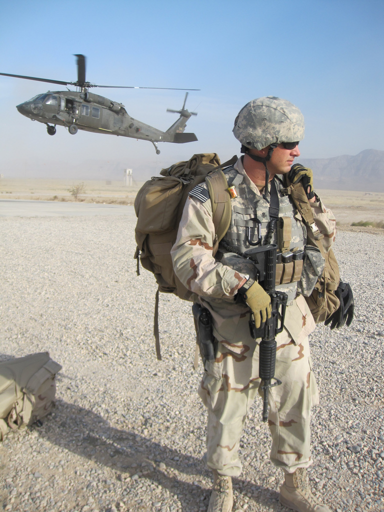 AFGHANISTAN – Petty Officer 2nd Class Benjamin J. Kiger, a storekeeping, surveys the landing zone as a U.S. Army UH-60 Blackhawk helicopter lands to transport his team. Kiger, a reservist, is a member of the U.S. Coast Guard Redeployment Assistance & Inspection Detachment (RAID) team.